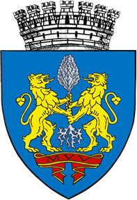 Coat of arms of Ploieşti